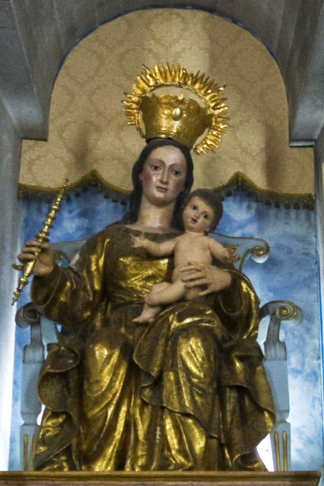 Statue of the Madonna and Child at the Cathedral of St. Mary the Crowned, Gibraltar.